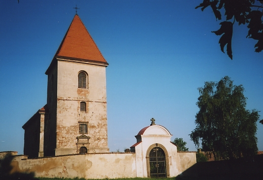 Church of the Beheading of Saint John the Baptist in village of Hospozín, Kladno, Kladno District, Czech Republic